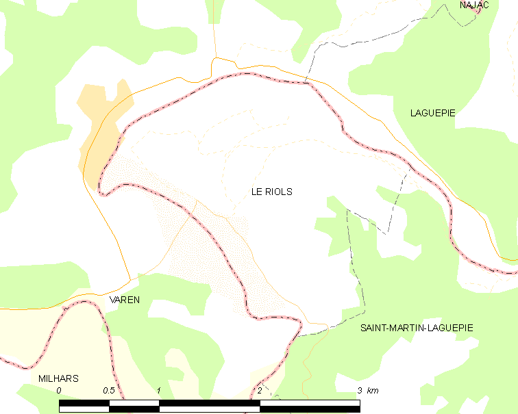 Map of French municipality Le Riols